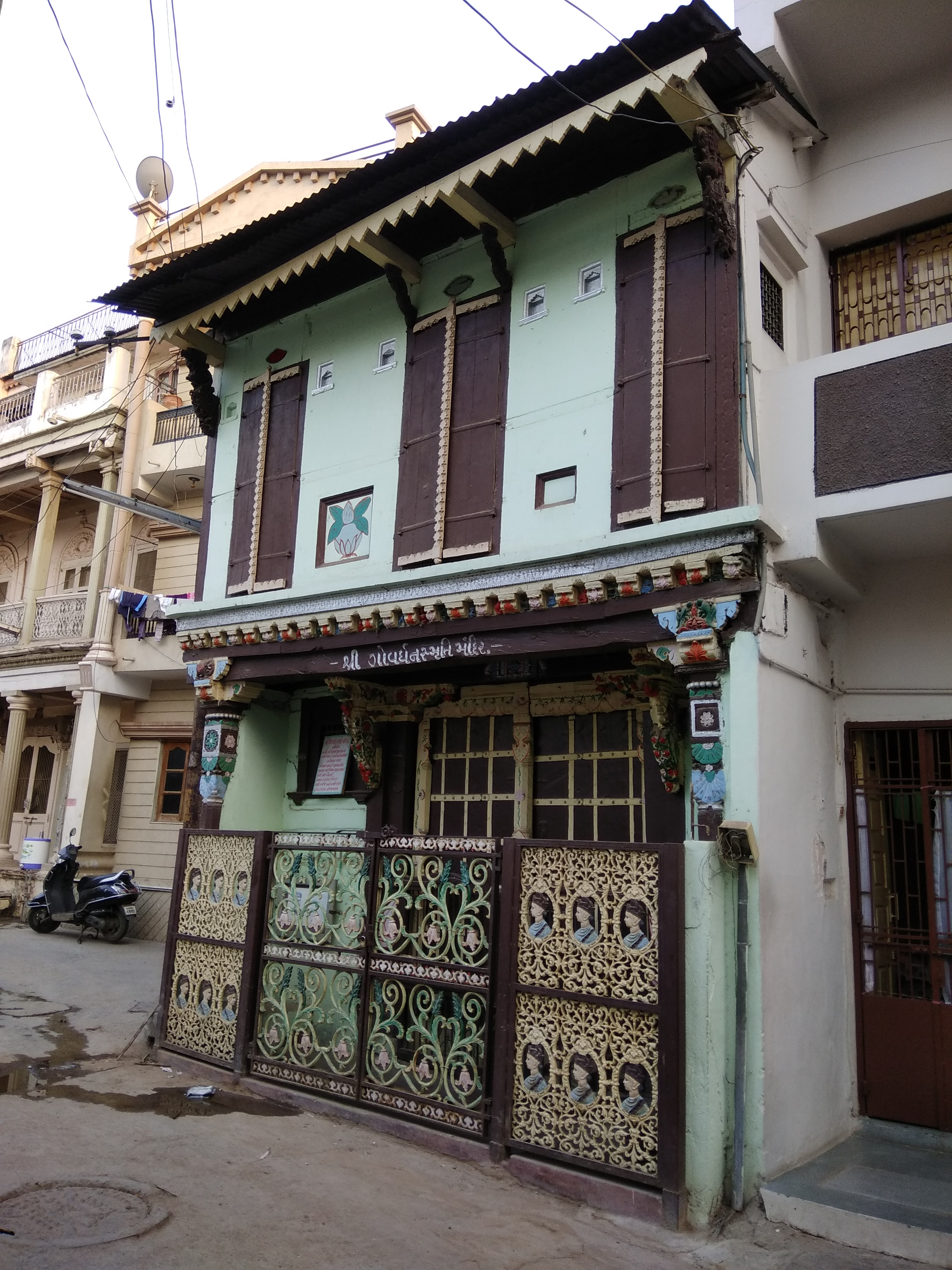 The birth place of Gujarati writer Govardhanram Tripathi in Nadiad (Gujarat, India). The place in now known as Govardhanram Smriti Mandir.